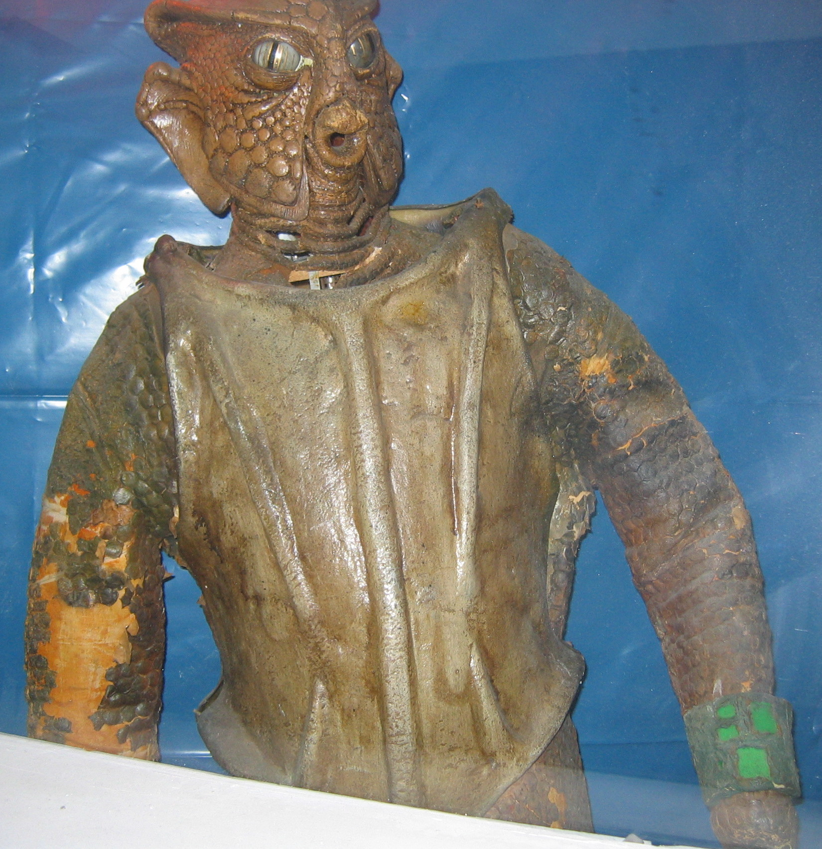 Blackpool Doctor Who Experience